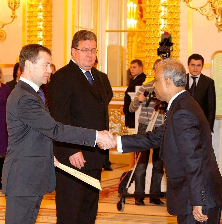 THE KREMLIN, MOSCOW. Presentation of foreign ambassadors’ letters of credence. Ambassador of the People’s Republic of Bangladesh S. M. Saiful Hoque presents his letter of credence to the President.